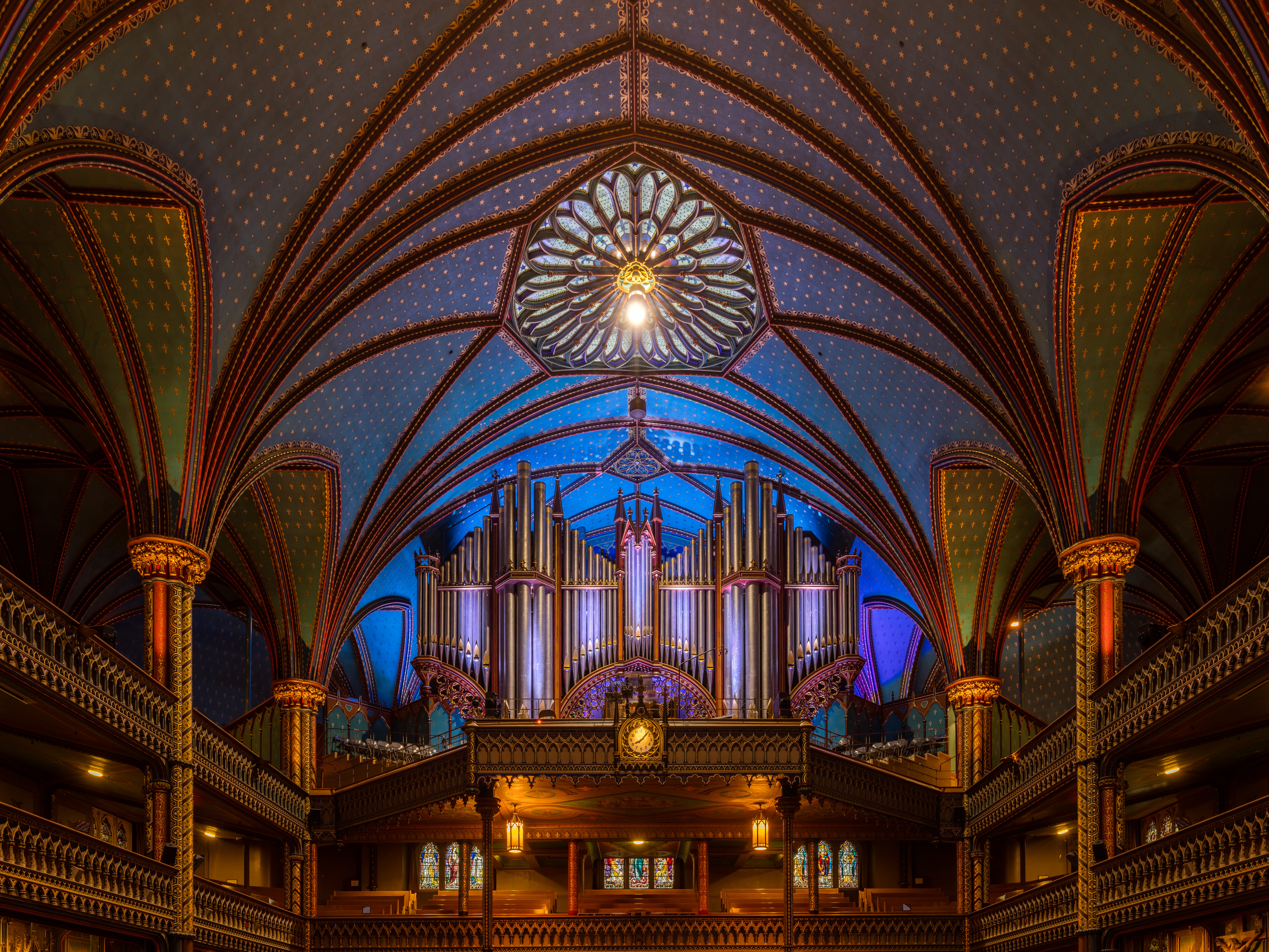 Interior of the Notre-Dame Basilica, located in the historic district of Old Montreal, in Montreal, Quebec, Canada. The interior of the basilica, built in Gothic Revival style, is impressive with vivid colors, stars and filled with hundreds of intricate wooden carvings and several religious statues. It was built between 1823 and 1829 after a design of James O'Donnell and it has become one of the landmarks of the city.